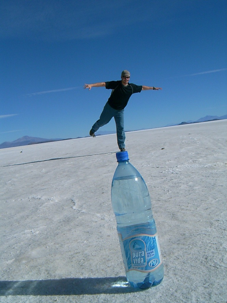 Playing at the Uyuni Salt Lake - Salar de Uyuni, bolivia